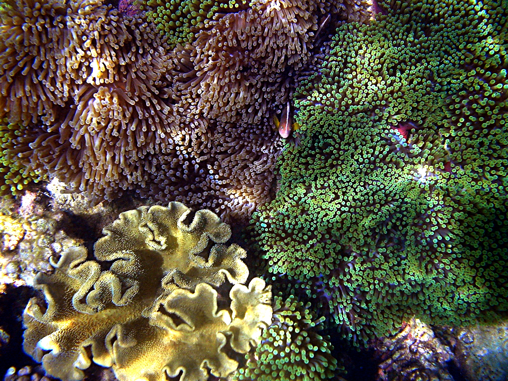 Sea Anemones Stichodactyla mertensii with Amphiprion akallopisos at Madagascar